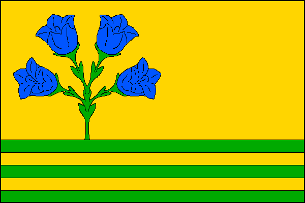 Municipal flag of Janová village, Vsetín District, Czech Republic.